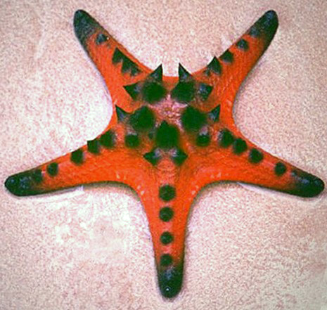 Proposal for the Bio-barnstar.